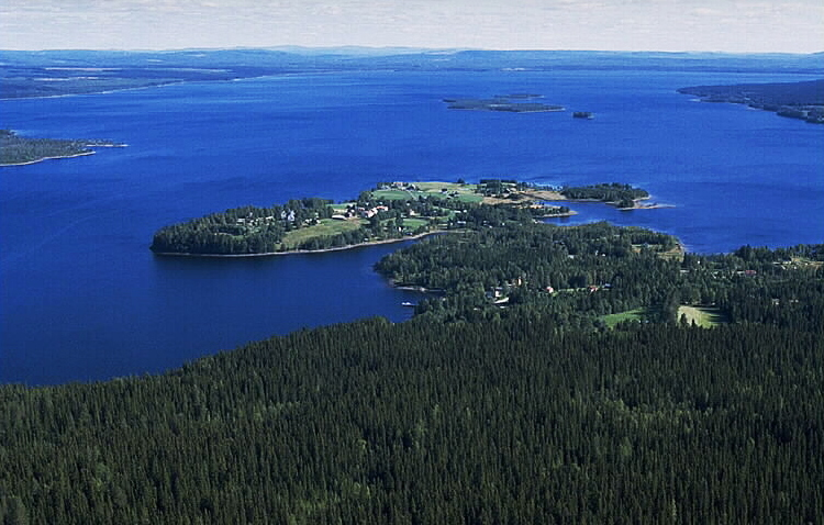 Alanäs village and the lake Flåsjön in Strömsunds municipality, Jämtland county, Sweden